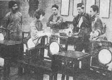 Frame from The Arrow of Hate (一箭仇 Yī jiàn chóu), 1927.